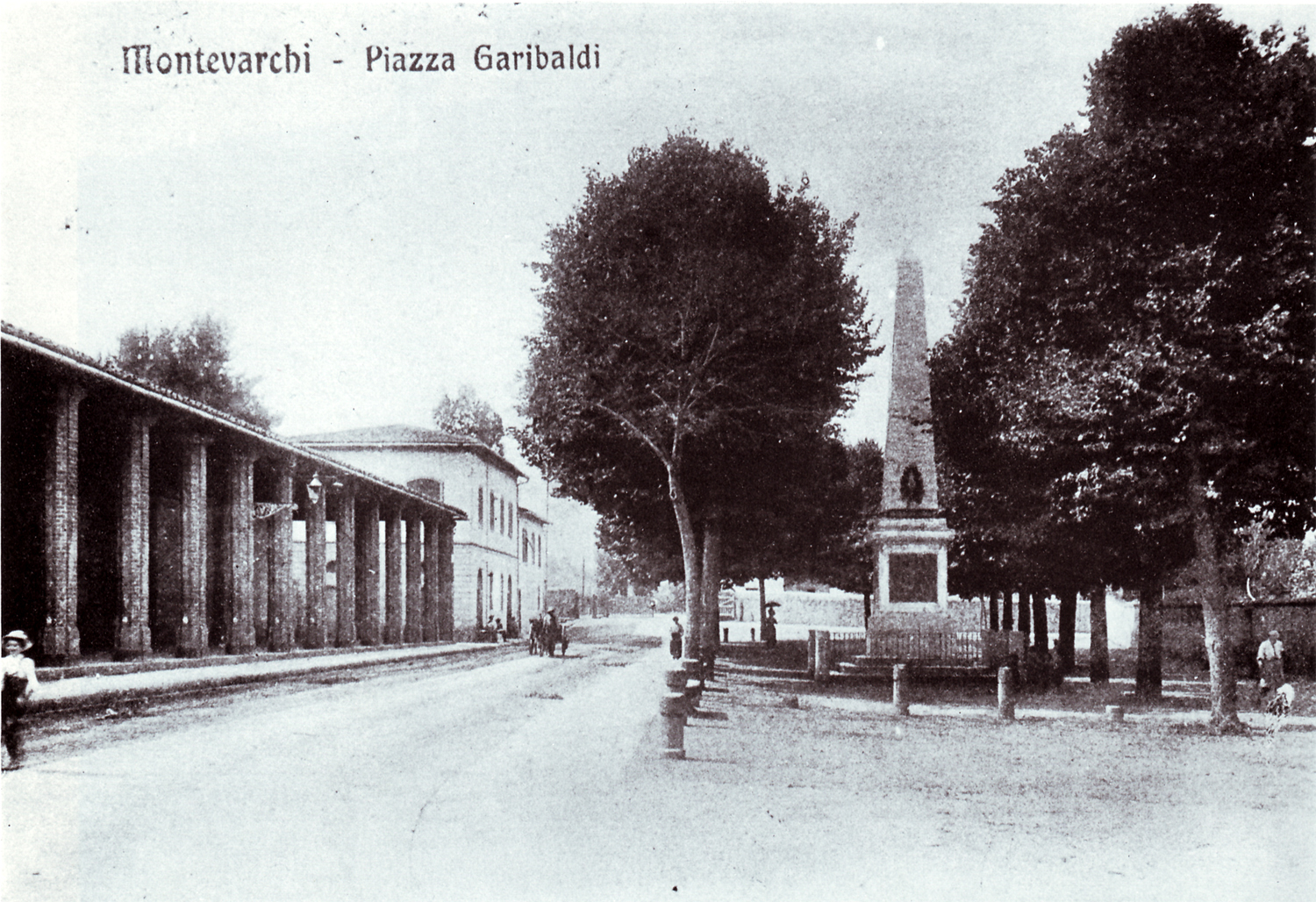 The arcade of the old market of Montevarchi in, formerly, Piazza Mercatale now Piazza Garibaldi